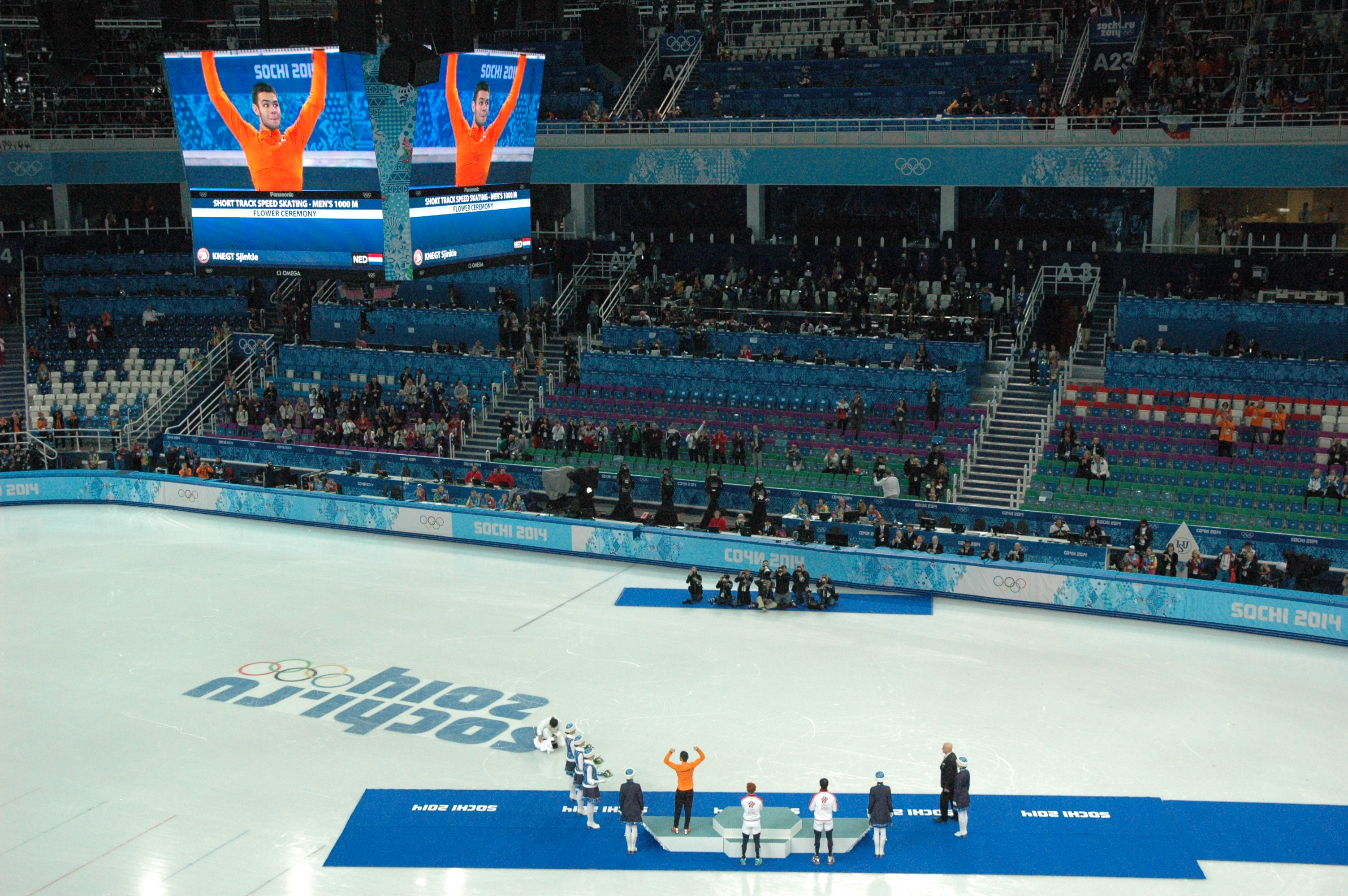 Men's 1000m short track speed skating, 2014 Winter Olympics, Podium Medalists Gold medal Viktor Ahn Russia Silver medal Vladimir Grigorev Russia Bronze medal Sjinkie Knegt Netherlands